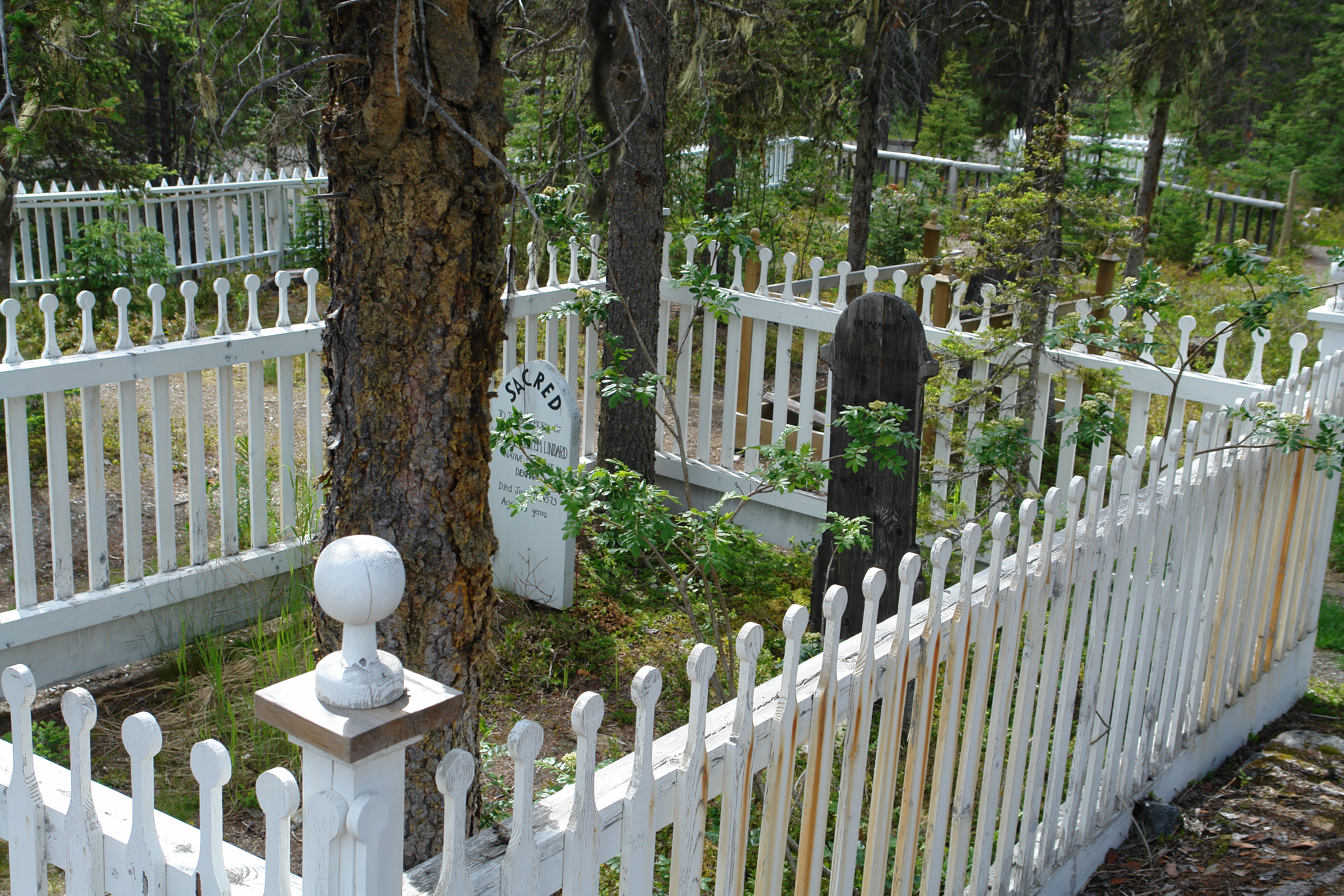 Photo by Steve Sarjola